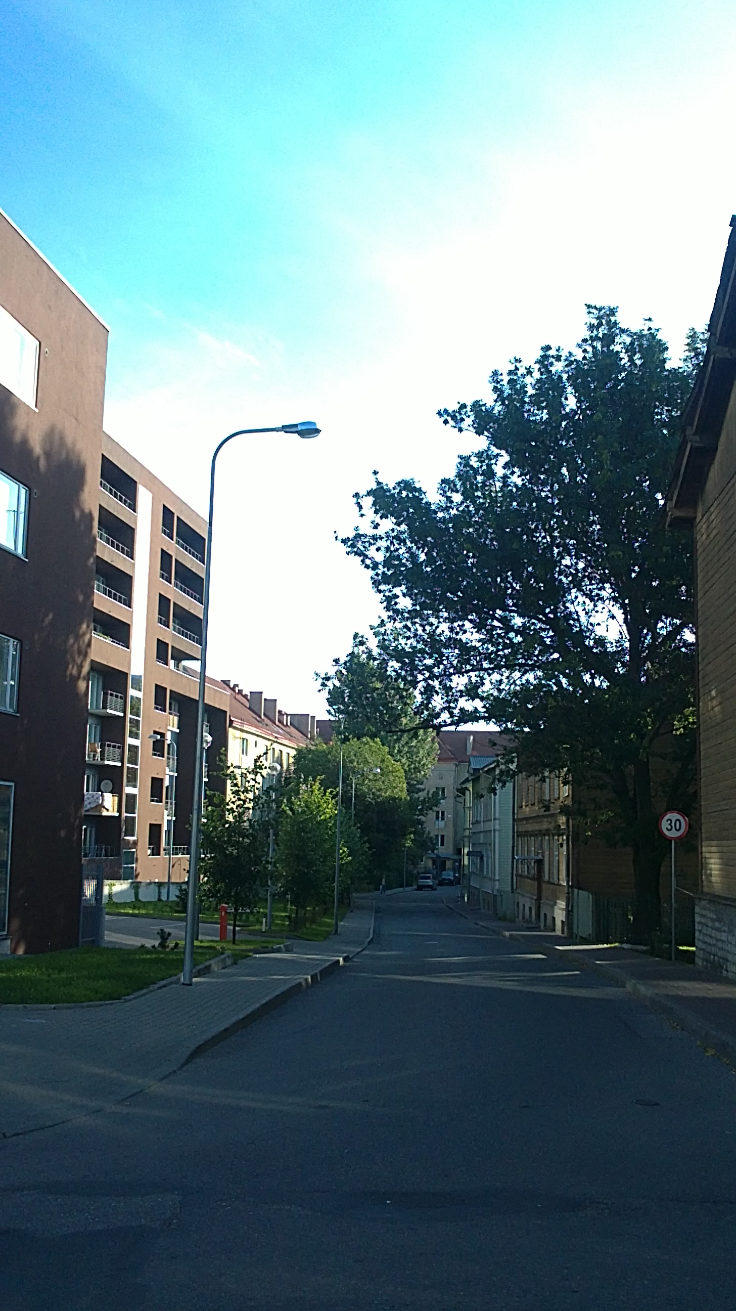 View of Allika street